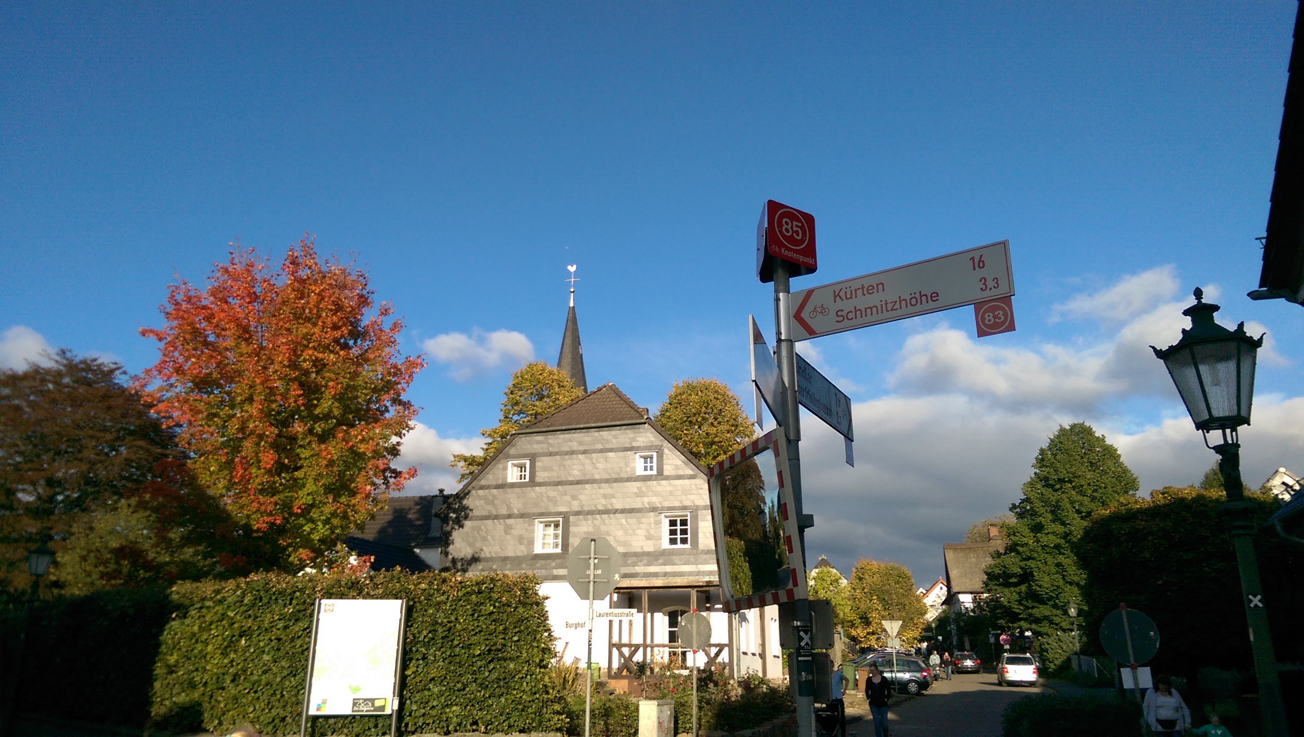 Hohkeppel in Germany